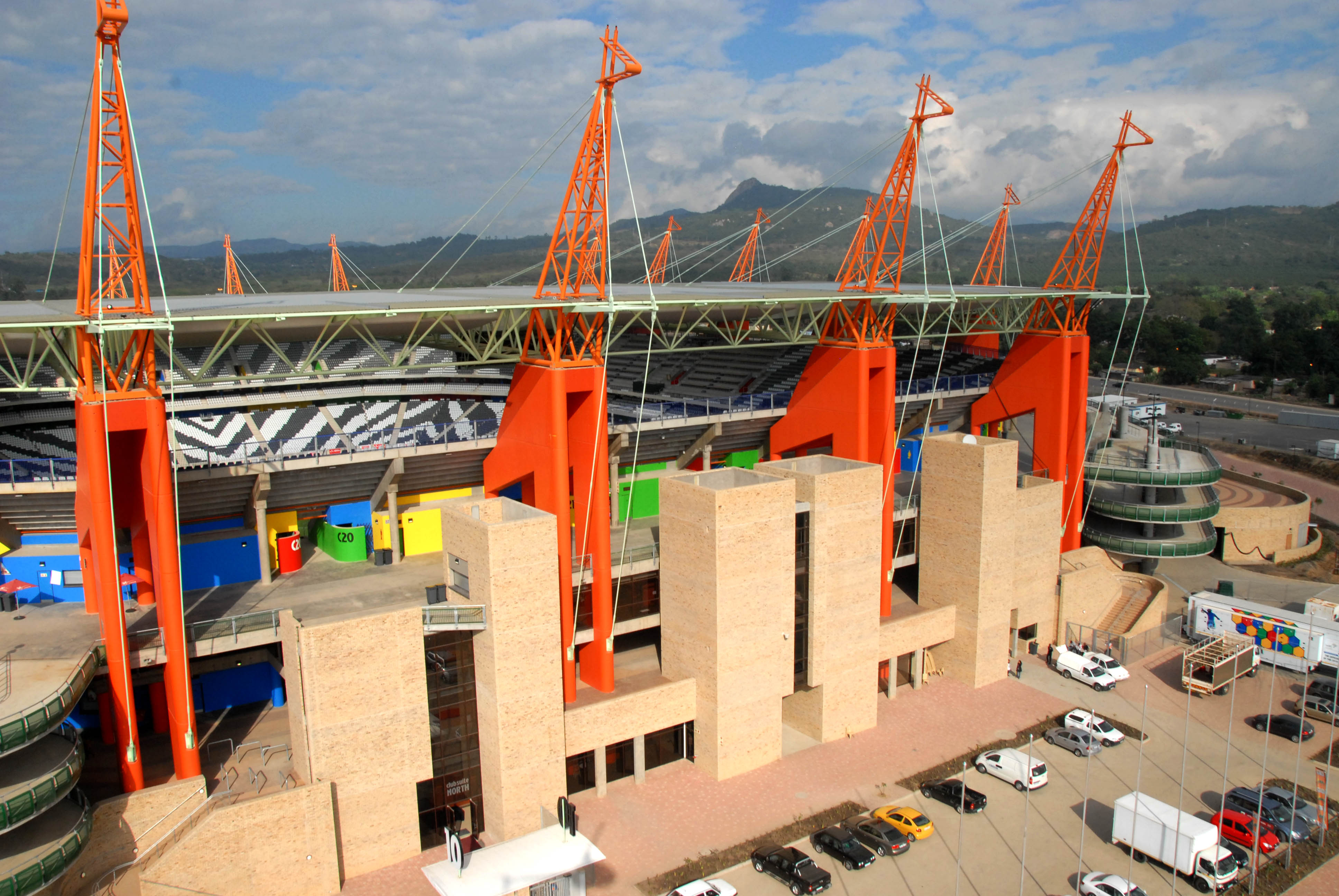 Aerial close up view of the roof support columns of Mbombela Stadium